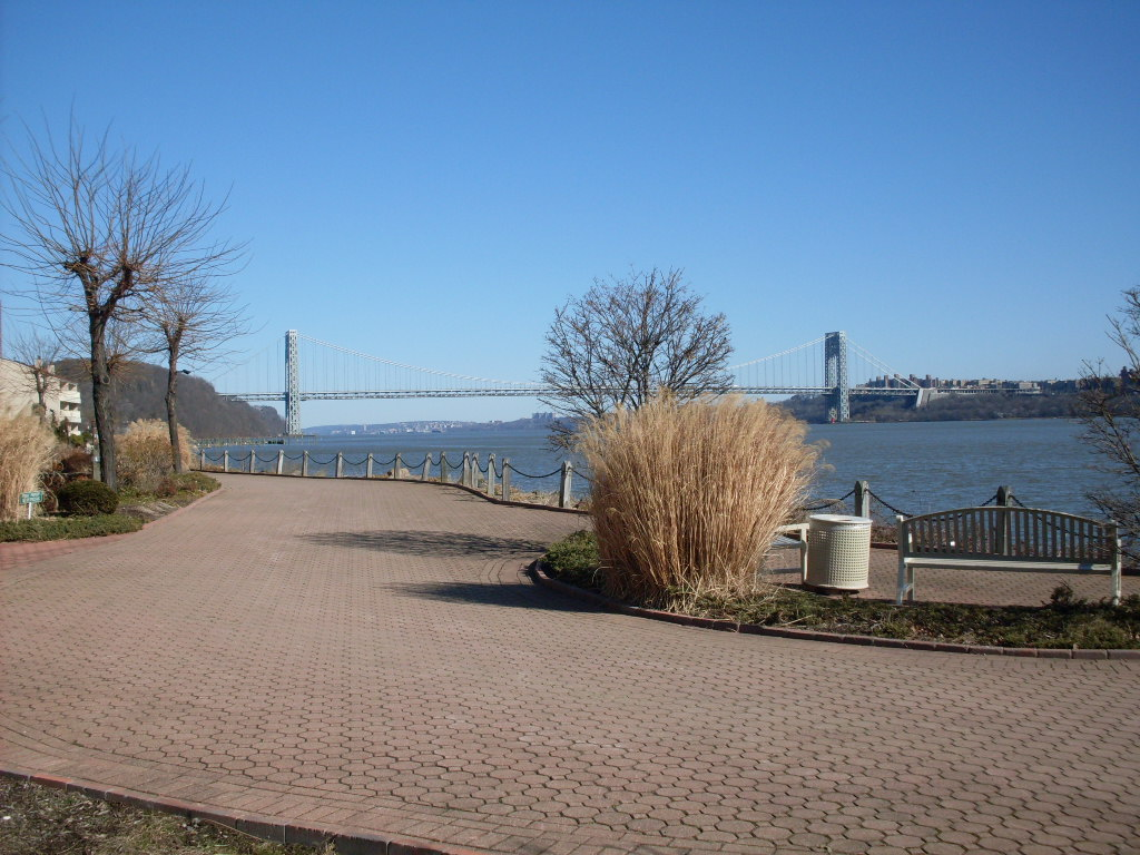 North Edgewater, Riverwalk near Veterans' Field